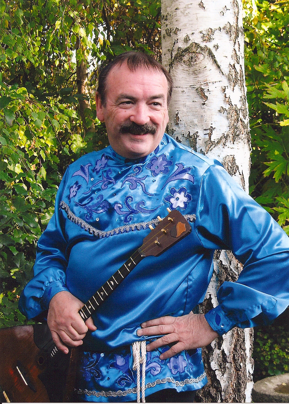 Picture of Bibs Ekkel with Balalaika